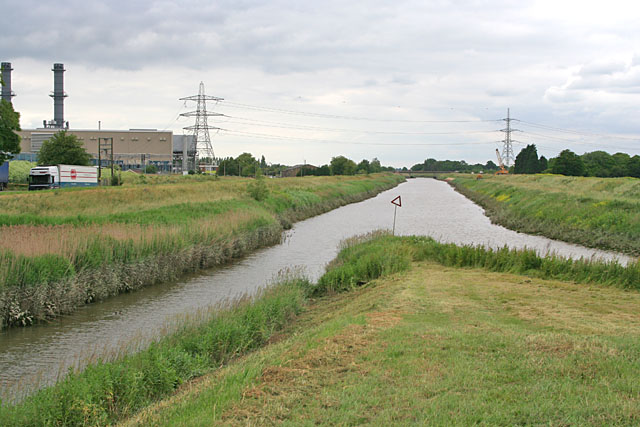 River Welland at high tide.